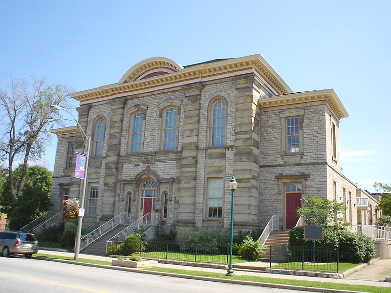 Mackenzie Hall, Windsor, Ontario.